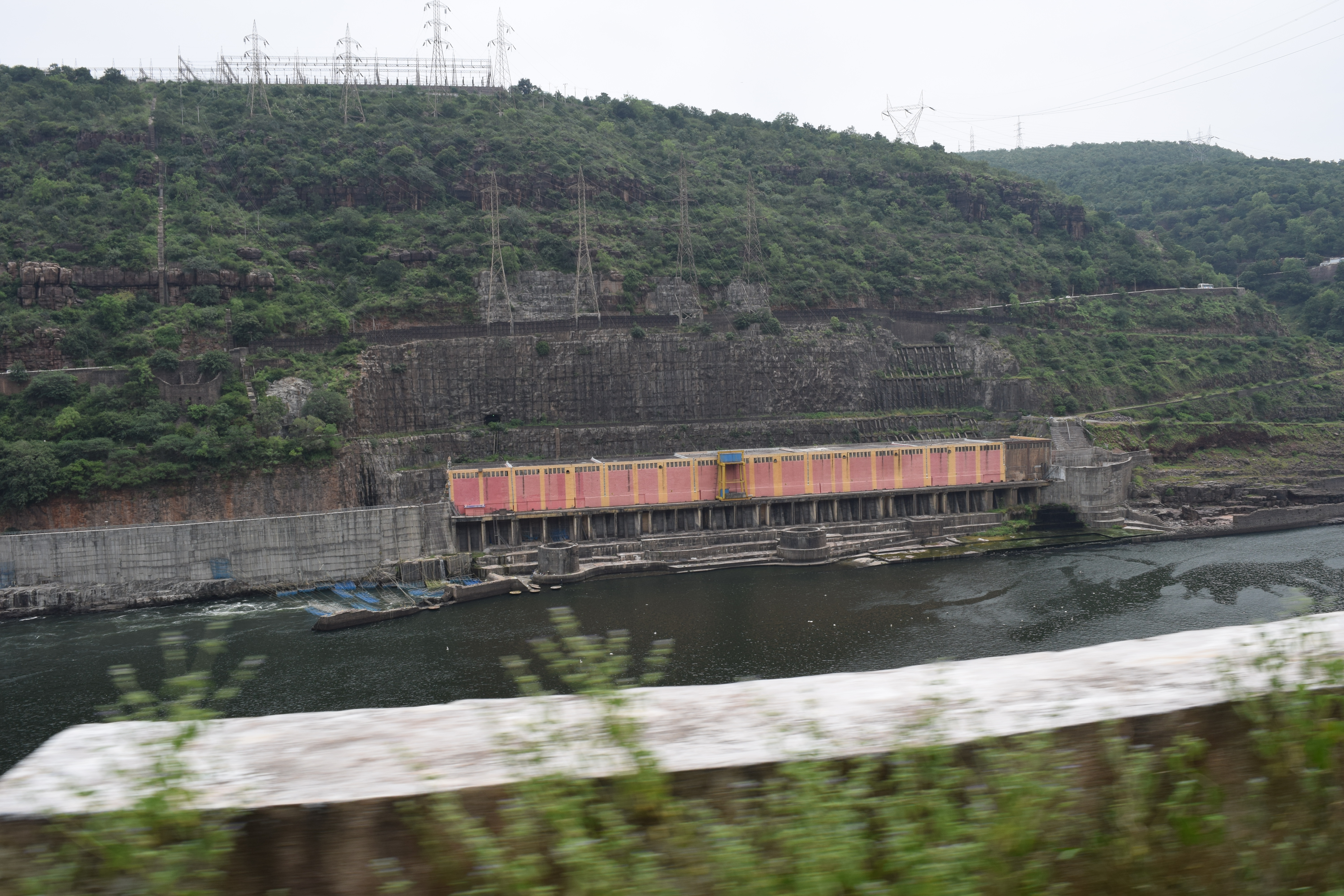 srisailam dam power genrators room